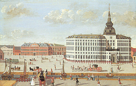 Copenhagen Castle as it appeared after Frederick IV's last adaptions in the 1720s and shortly before it was demolished in 1731. After the rebuilding the palace started crumbling and cracking under its own wright.